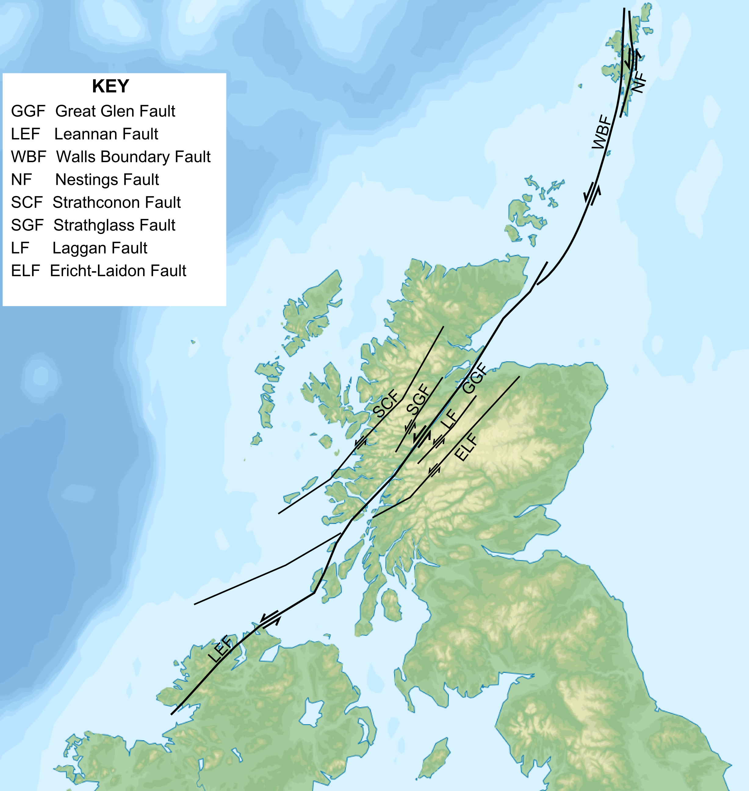 Map of Late Caledonian sinistral strike-slip faults in Scotland and the northern part of the island of Ireland, based on various published maps. Base map is a cropped version of File:Blank topographic map of the British Isles.svg.